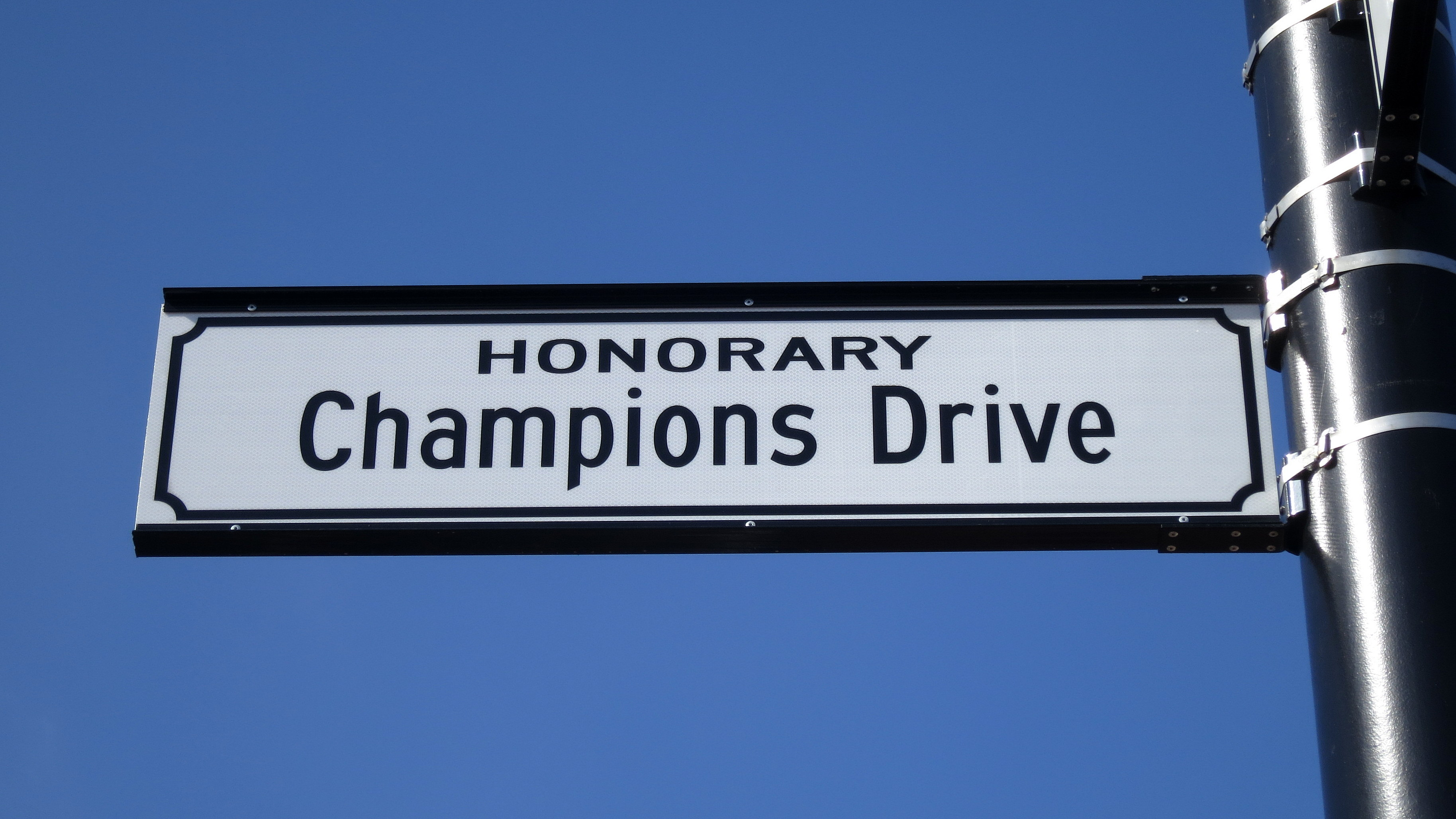 N. High St. (Dublin, Ohio) - renamed Champions Drive in honor of the 2014 Ohio State Buckeyes football team